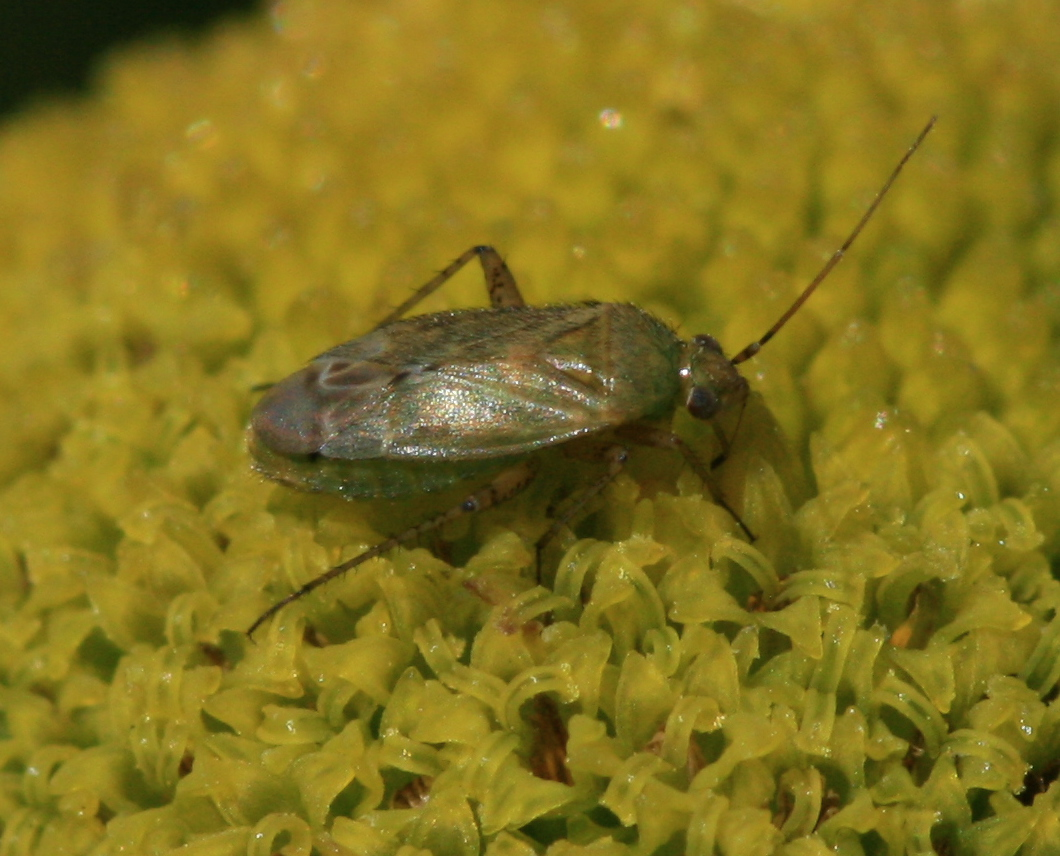 Musselburgh, Scotland